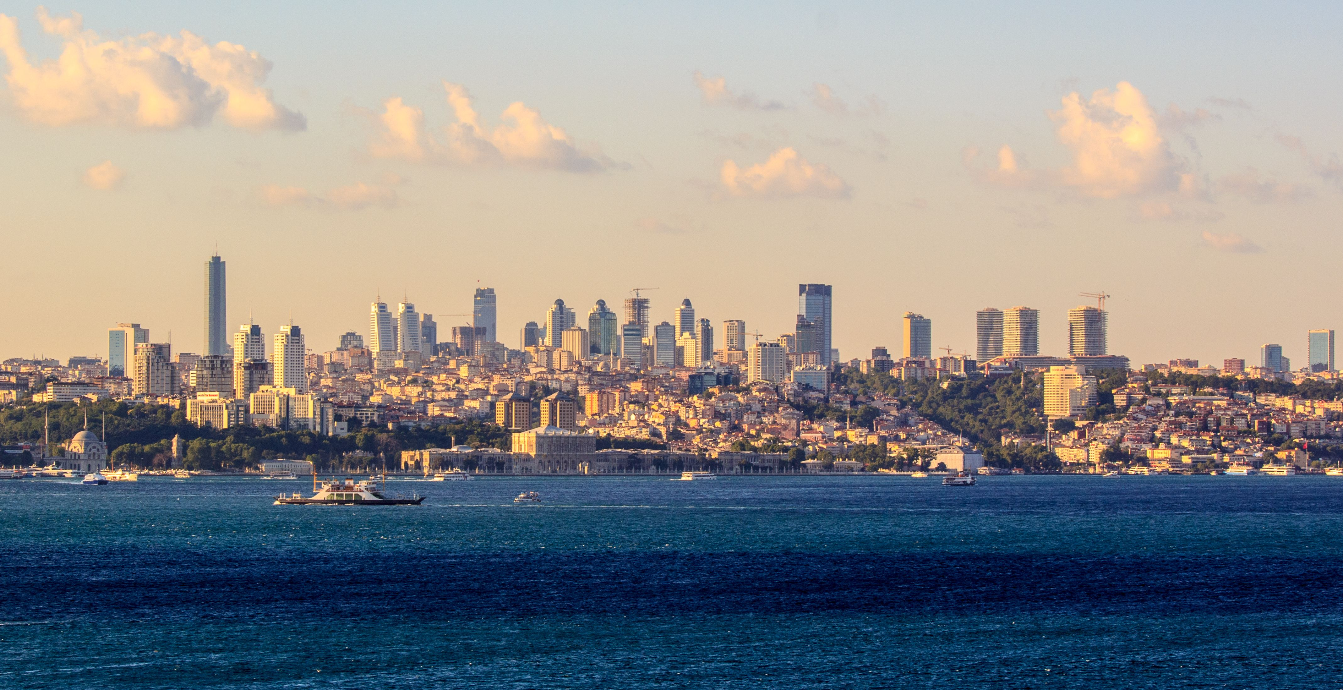 Modern Istanbul skyline at sunset